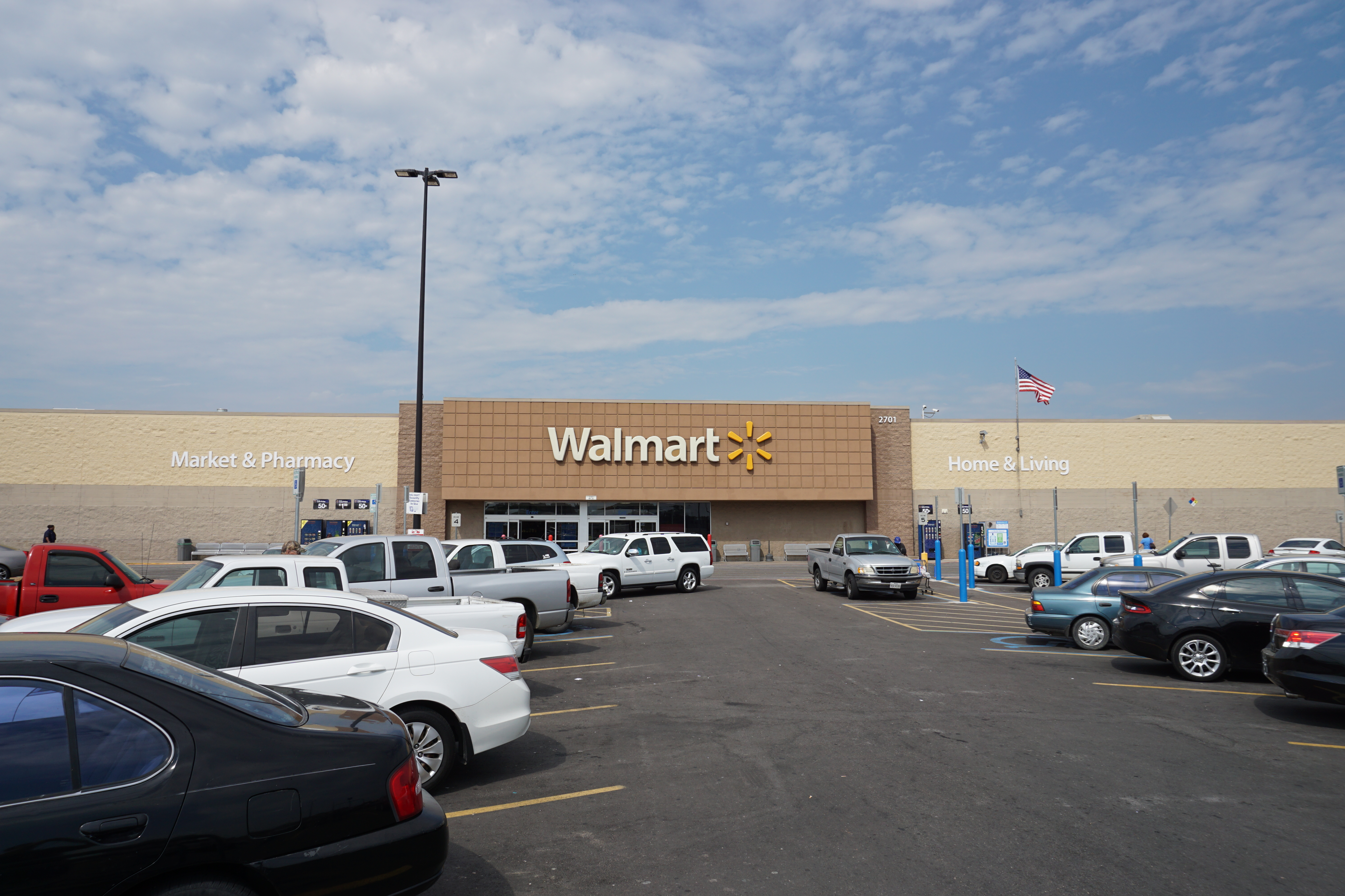 Walmart in Commerce, Texas (United States).